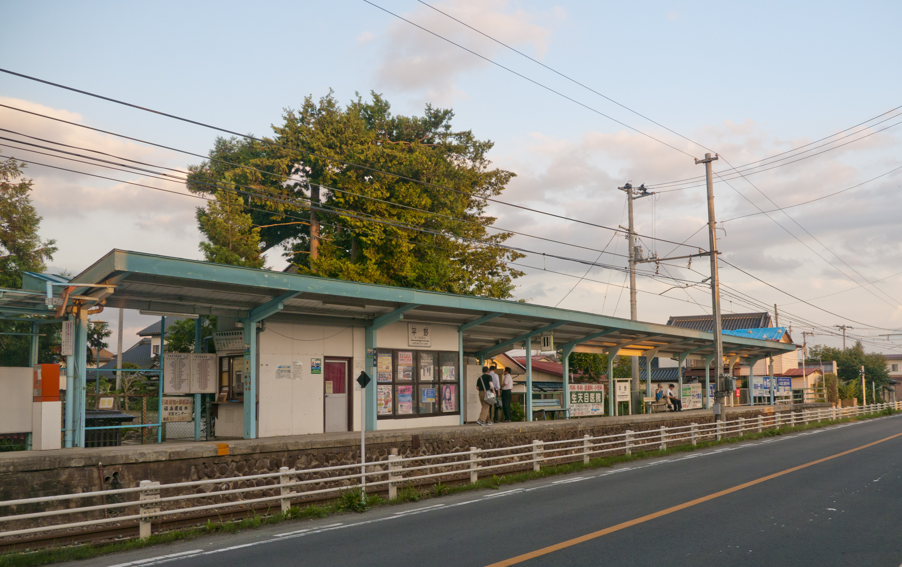 Fukushima Kotsu Iizaka Line Hirano Station in Fukushima, Fukushima, Japan